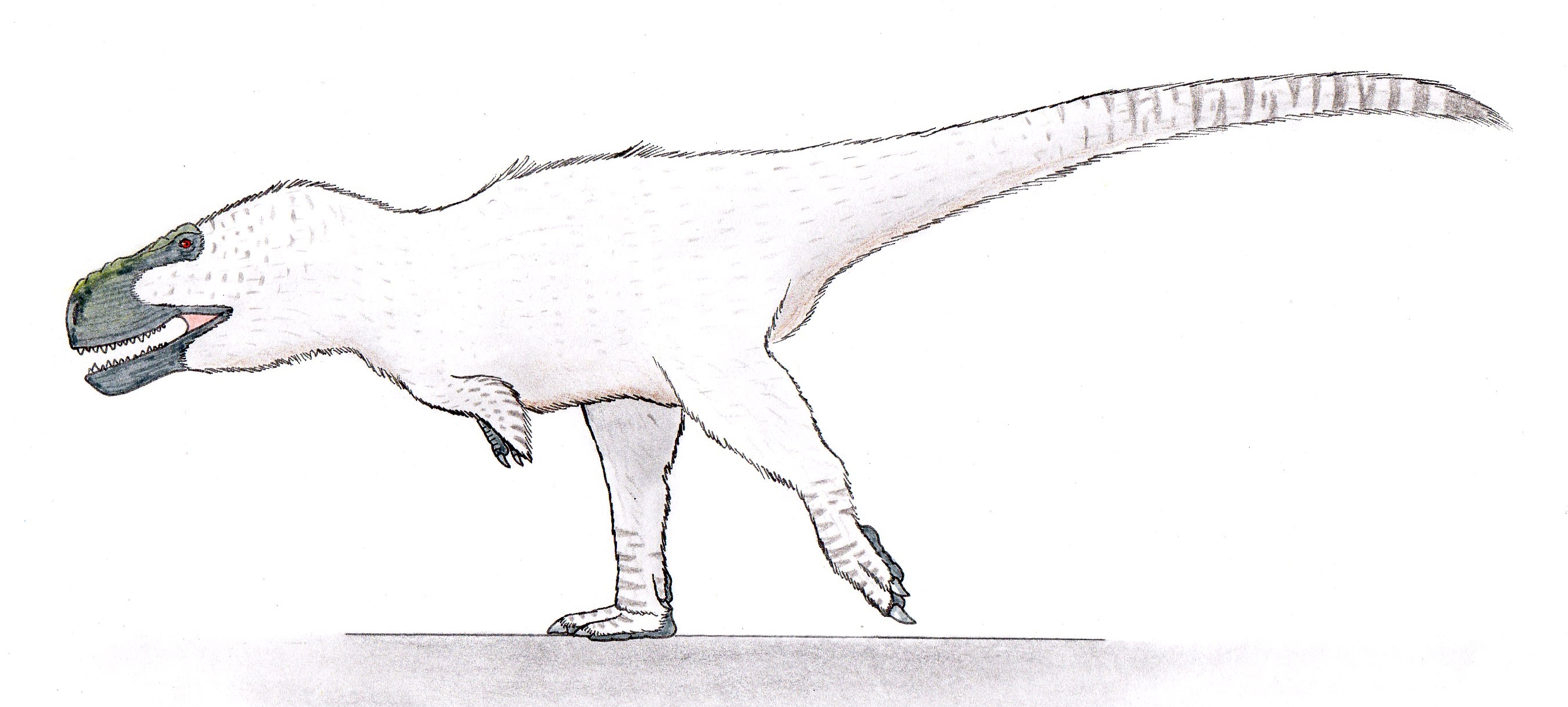 Graphic reconstruction of Nanuqsaurus